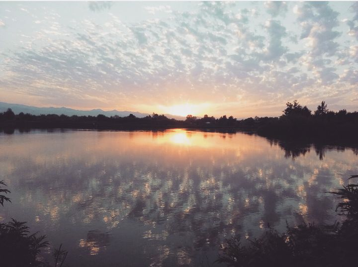 Beautiful pond of Lishavandan village